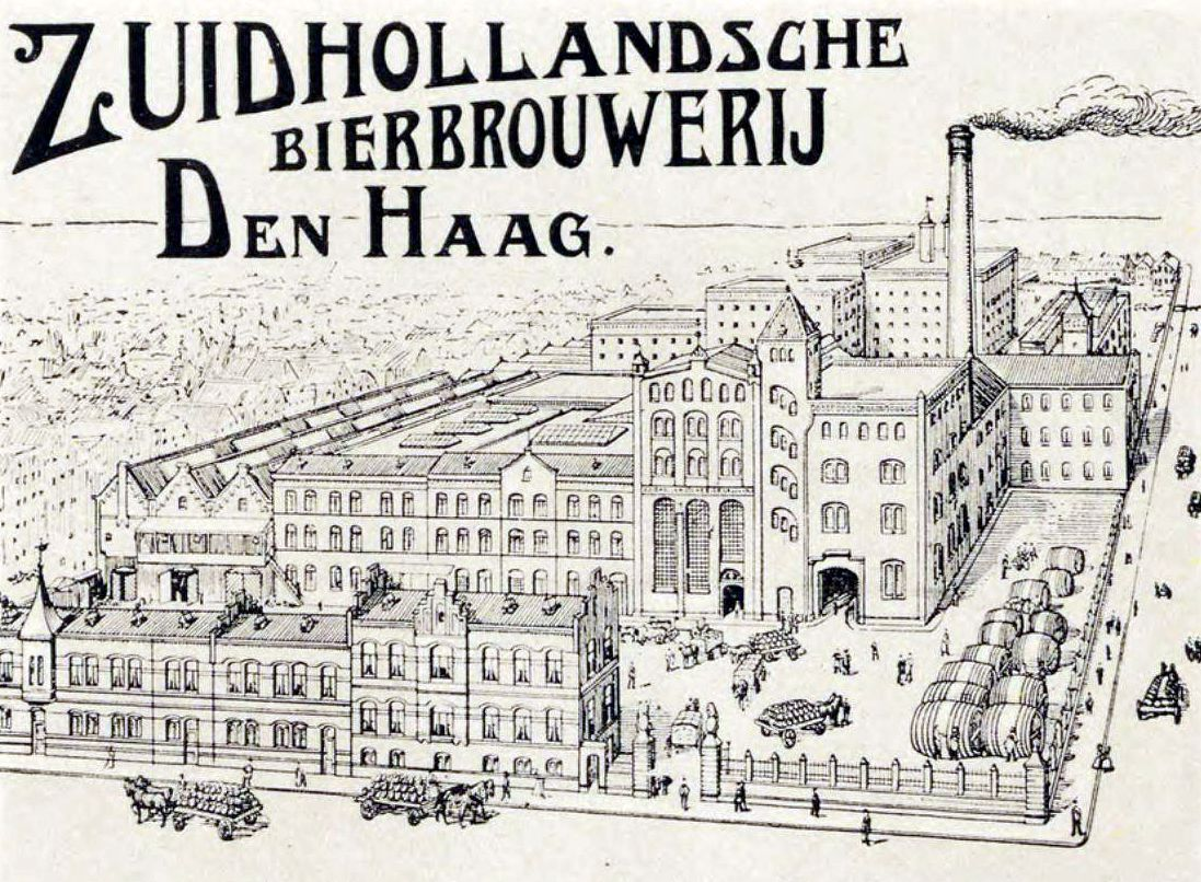 Zuid-Hollandsche Bierbrouwerij, 1920